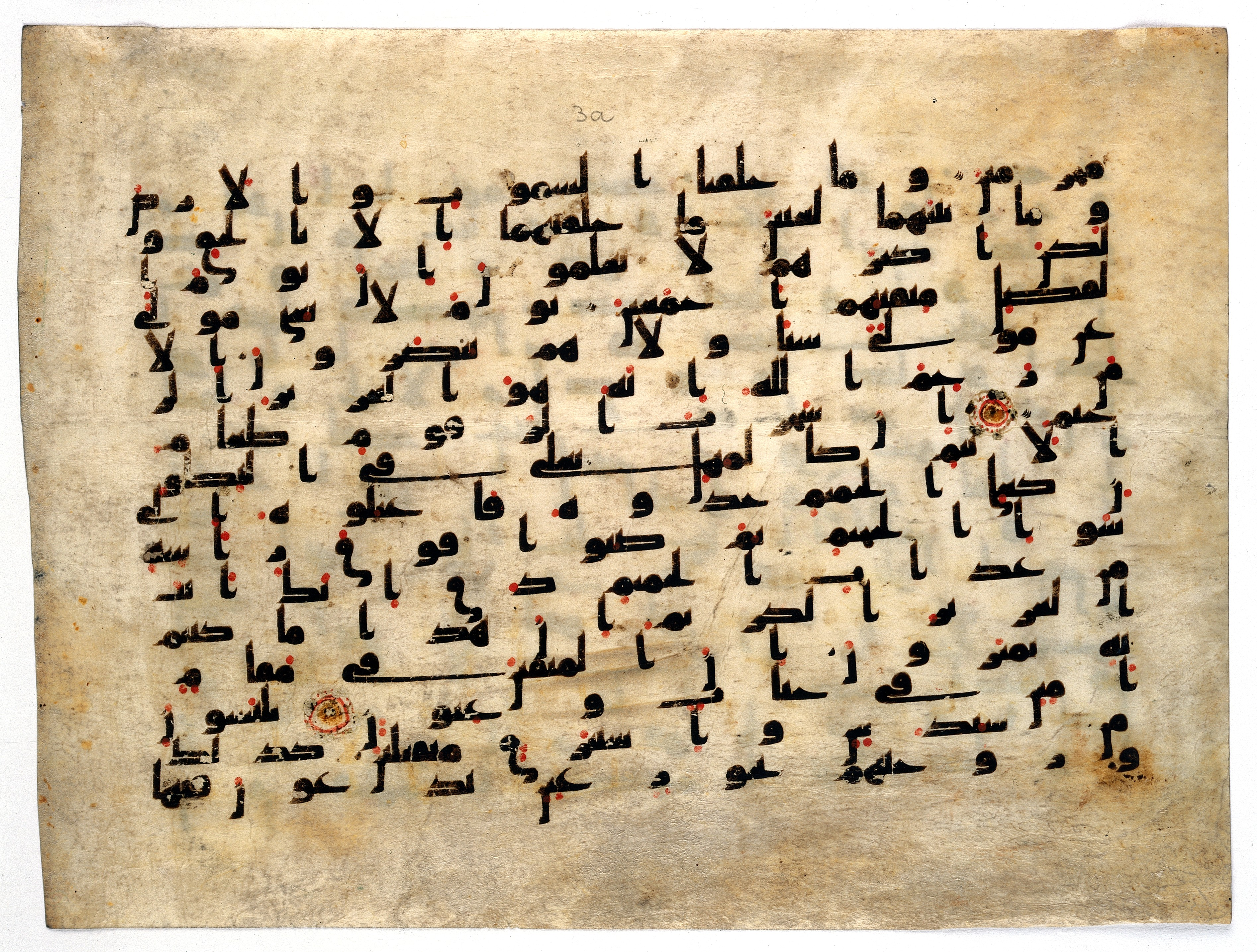 Arabic Manuscript 84: Back image Asian Collection